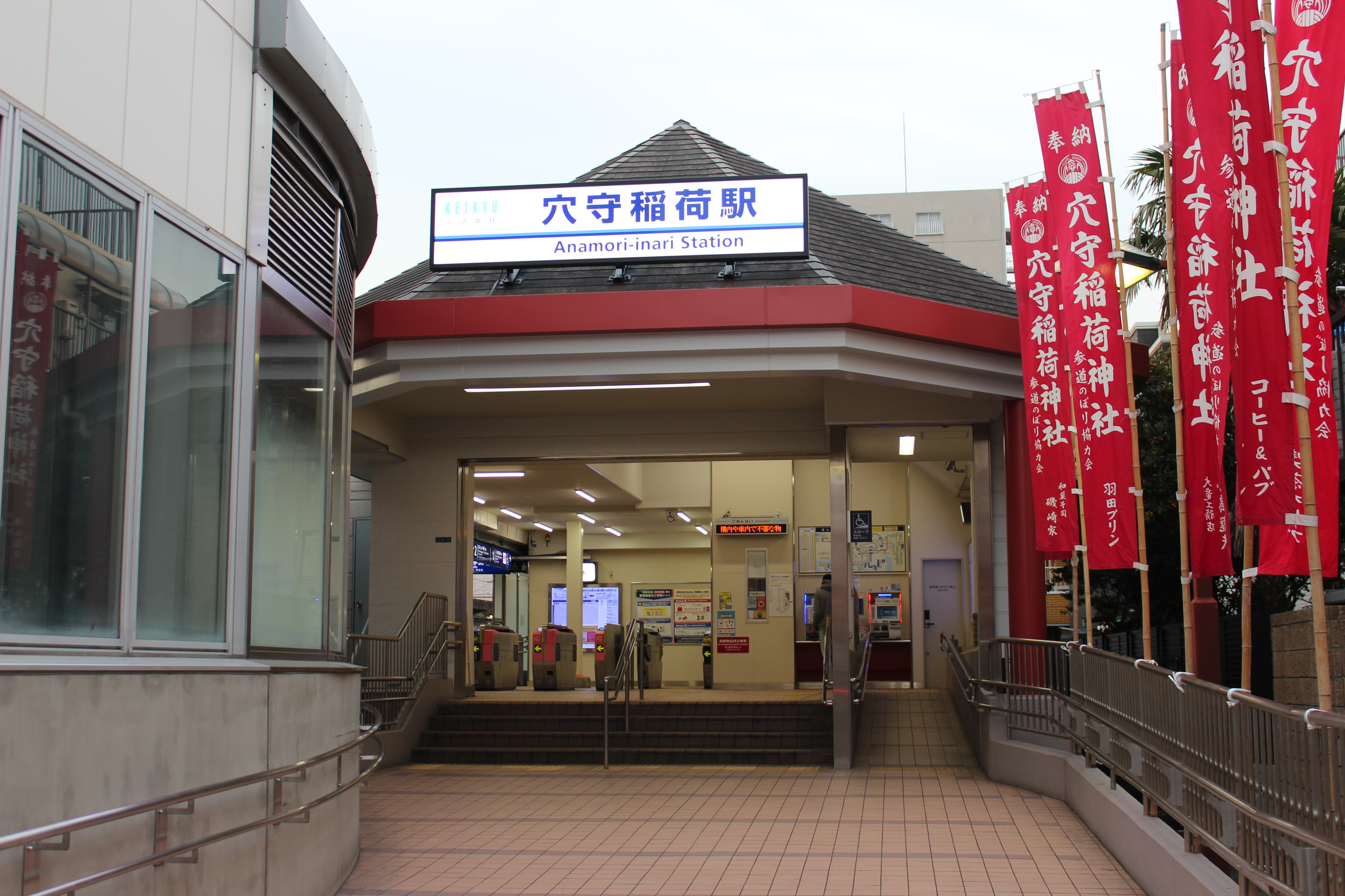 Anamoriinari Station entrance